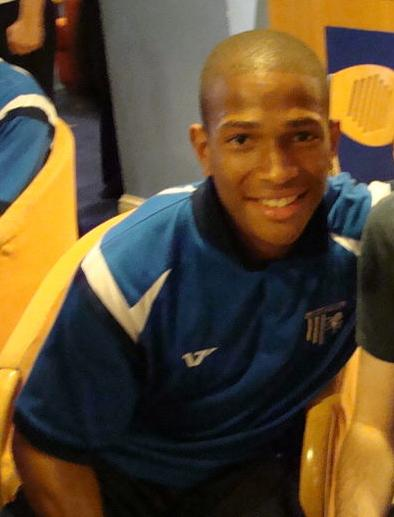 Cropped from :Image:Me_and_Simeon_Jackson.JPG